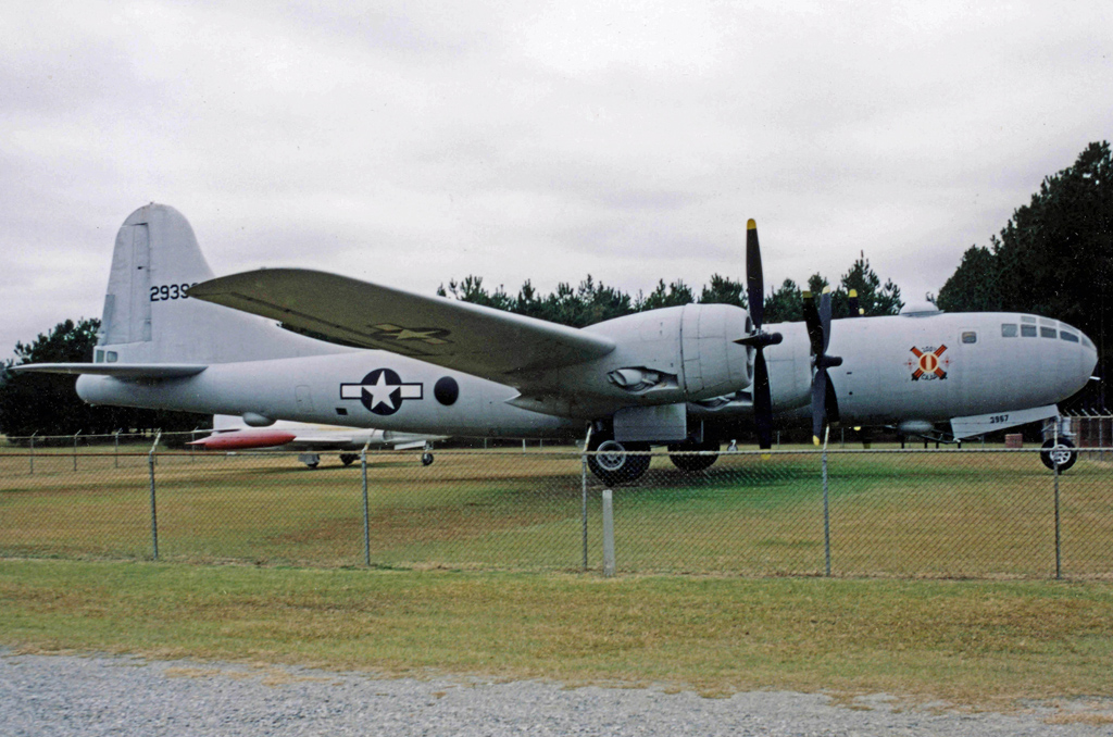 Boeing B-29 Superfortress 293967 preserved at Cordele Georgia in 2002